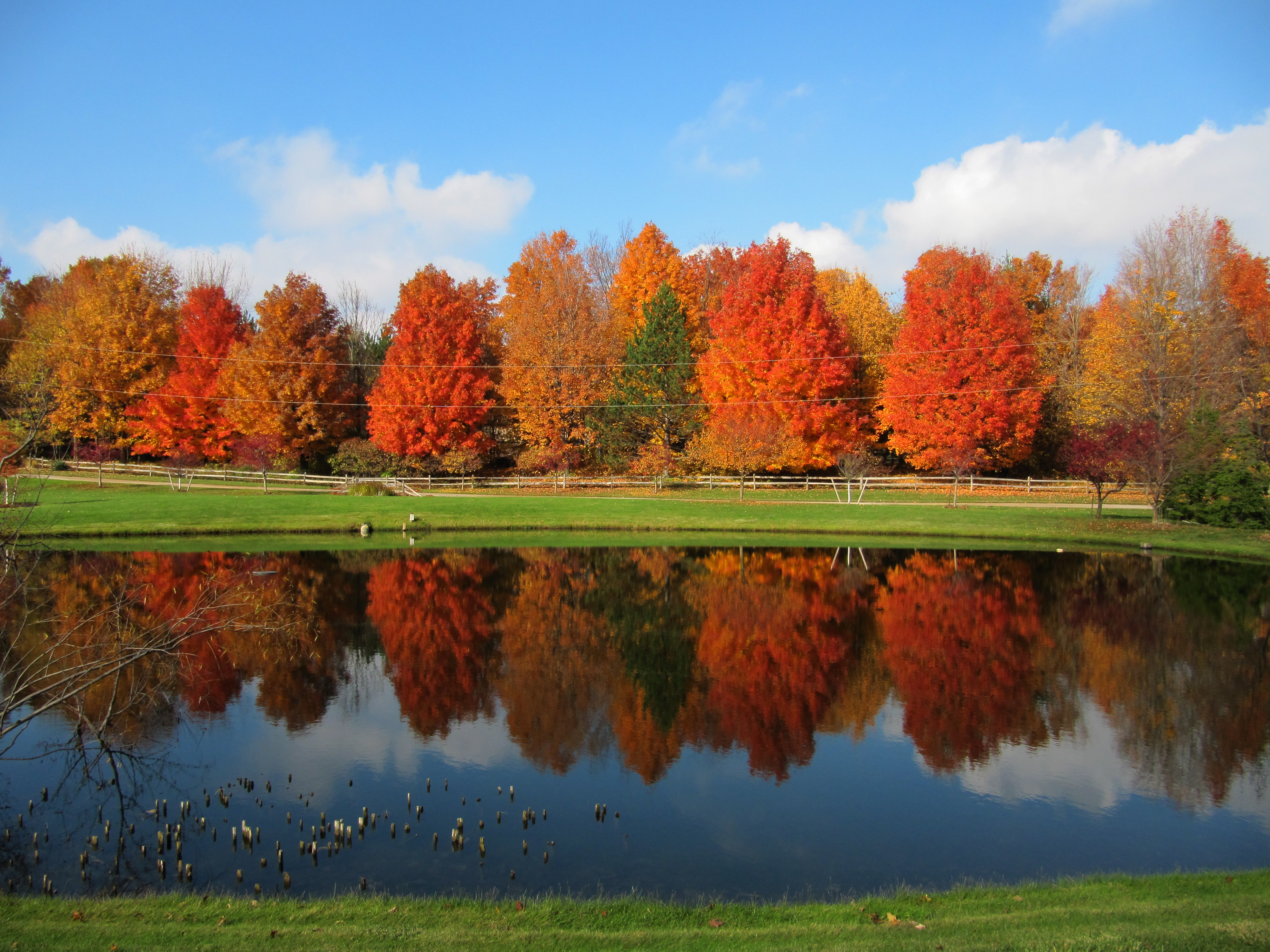 I've been waiting all fall for the right combination of sun and autumn tree colors fully developed to get this shot. After about 10 days of straight rain, this afternoon I finally was able to capture this.